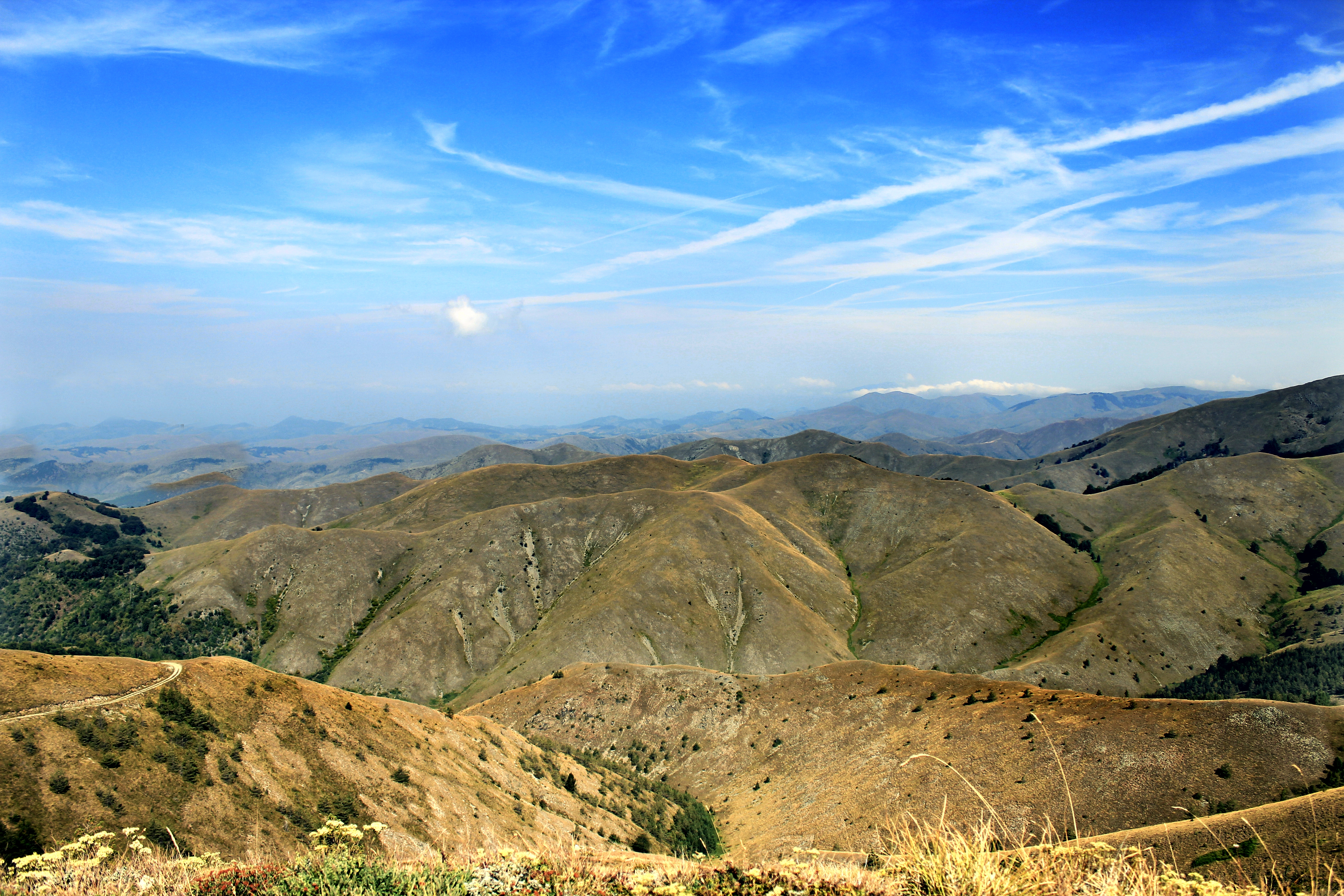 Bajgora Village. Located in the municipality of Mitrovica, It is located in the south of the Kopaonik range.Peak rising up to 1,789 m (5,869 ft) high.